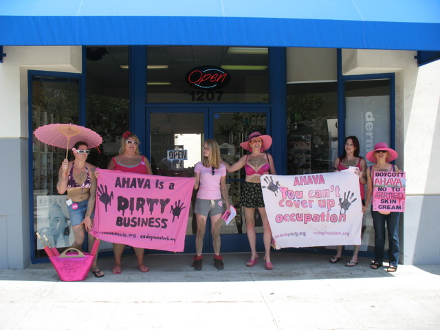 Activist group Code Pink protest in support of anti-Israeli boycotts, specifically targeting AHAVA in this case. The demonstration took place in Los Angeles in July 2009.